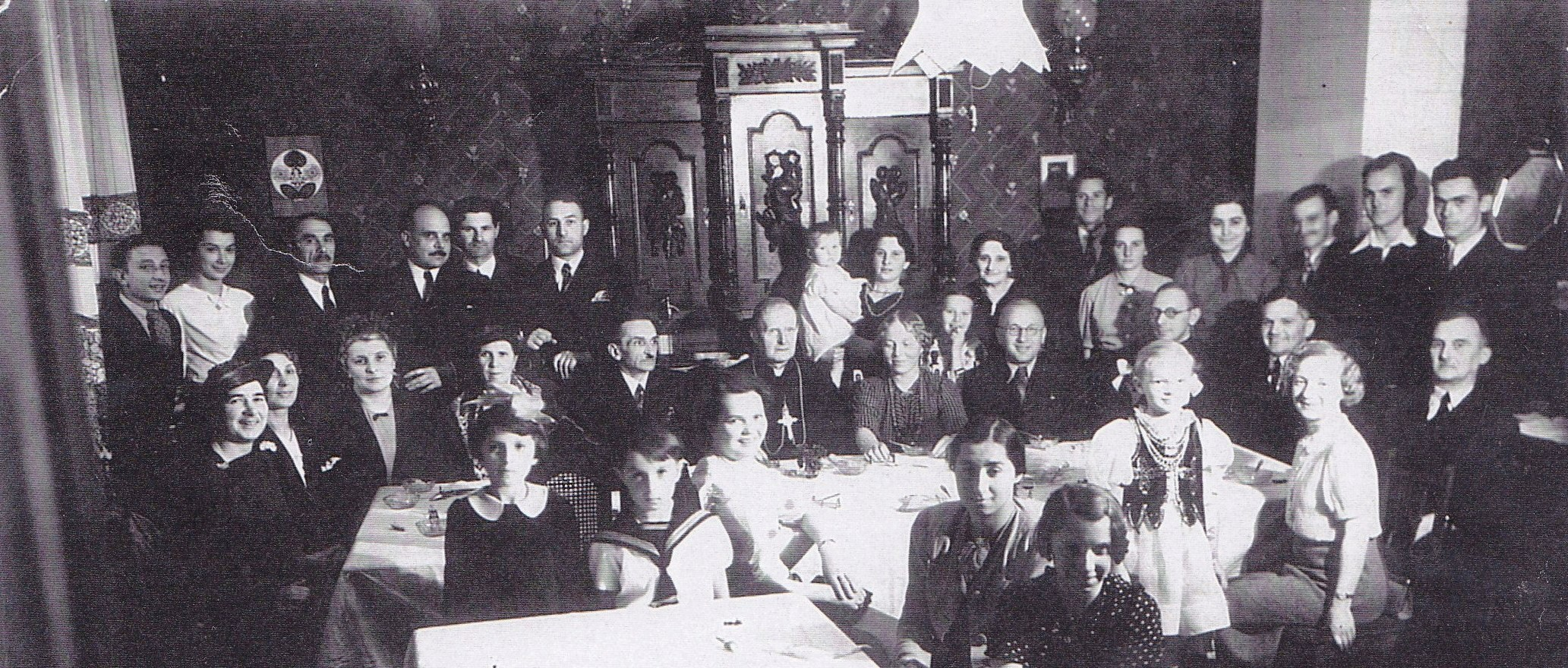 Baptism of Katarzyna Piskorska